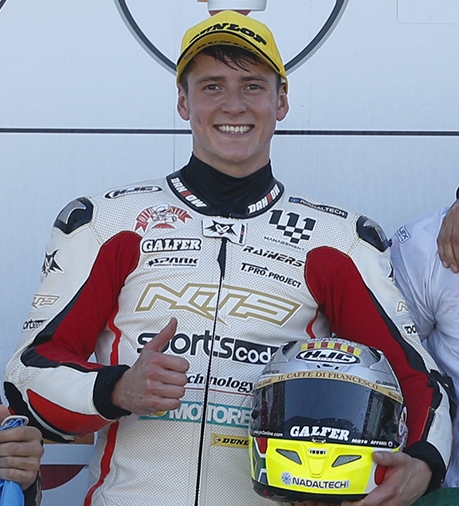 Steven Odendaal on the podium of the 2017 CEV Moto2 Valencia II race.